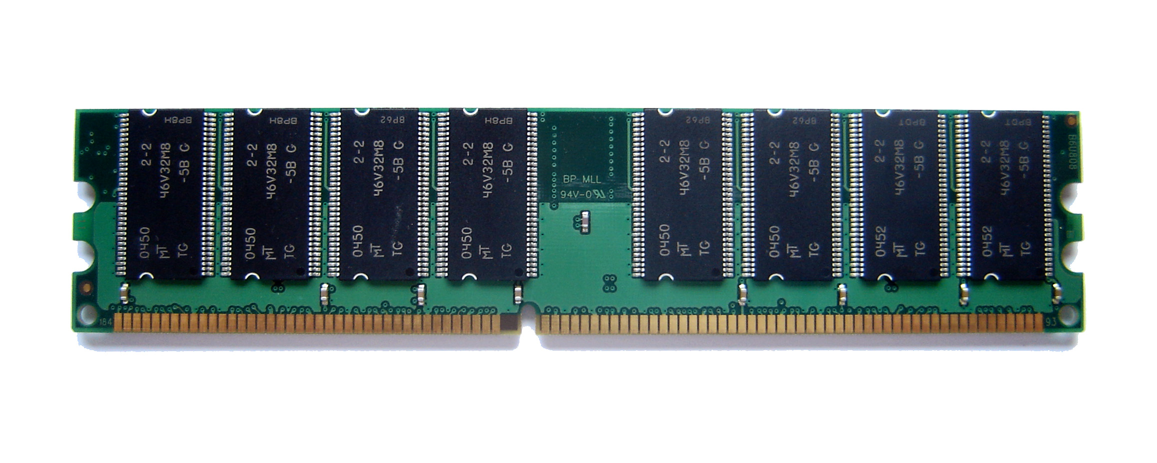 A photo of a DDR SDRAM.